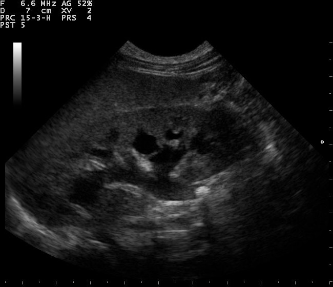 Ultrasound images of kidney